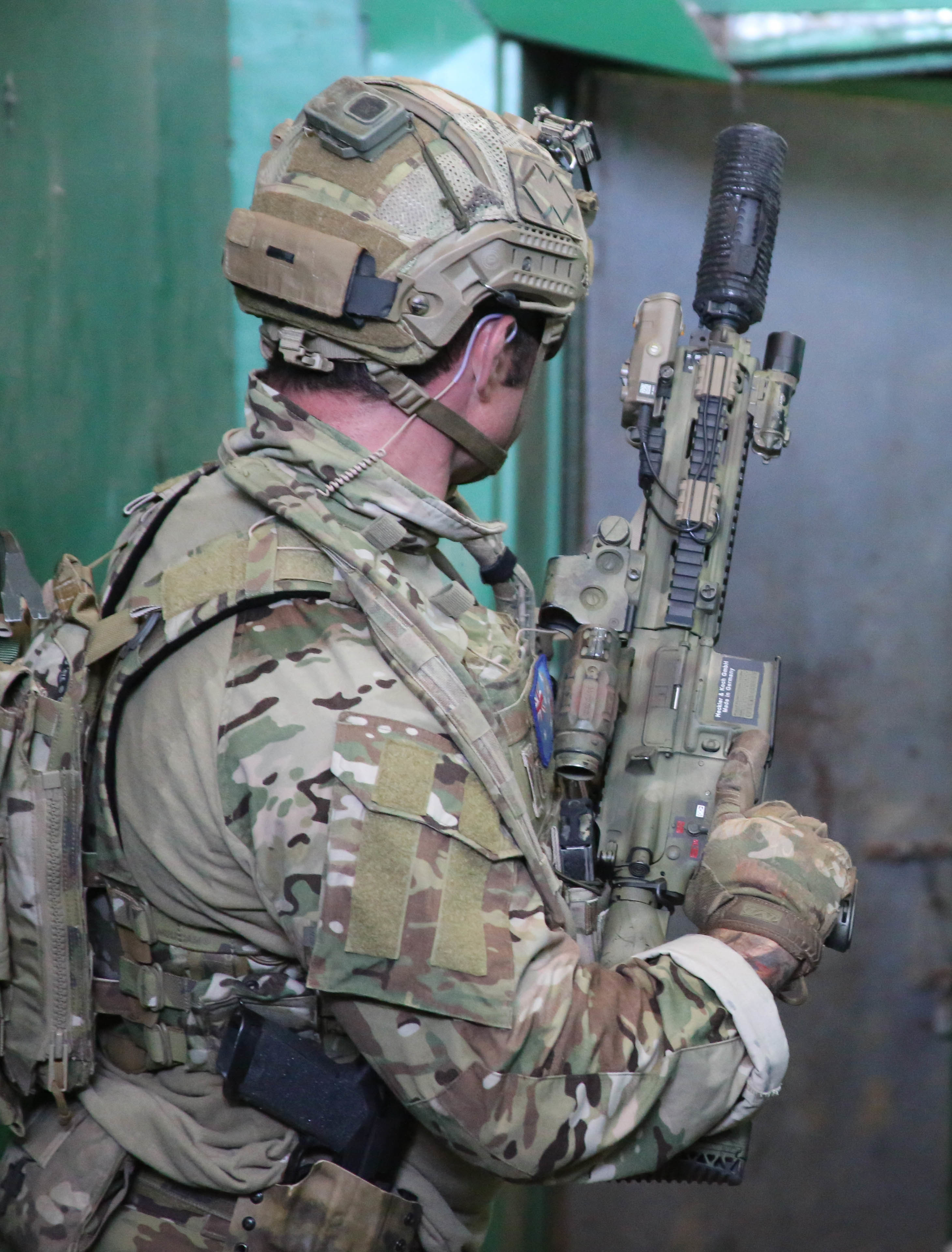 (May 12, 2017) An Australian 2nd Commando Regiment soldier, clears a room during close quarters battle training in support of Balikatan 2017 at Fort Magsaysay in Santa Rosa, Nueva Ecija, Philippines. By training together, the Philippine, Australian and U.S. military build upon shared tactics, techniques, and procedures that enhance readiness and response capabilities to emerging threats. Balikatan is an annual U.S.-Philippine bilateral military exercise focused on a variety of missions including humanitarian and disaster relief, counter-terrorism, and other combined military operations. Note: The author identified the soldier as U.S. Army Special Forces. The soldier is wearing an Australian flag patch on the camouflage uniform and the Ops-Core FAST helmet has a double diamond patch of the 2nd Commando Regiment.